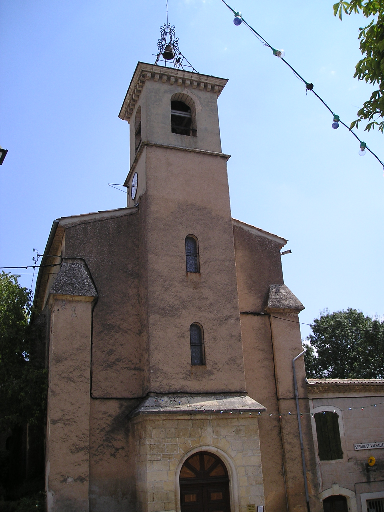 In Hérault, France, the front wall of the church of Saint-Paul-et-Valmalle.